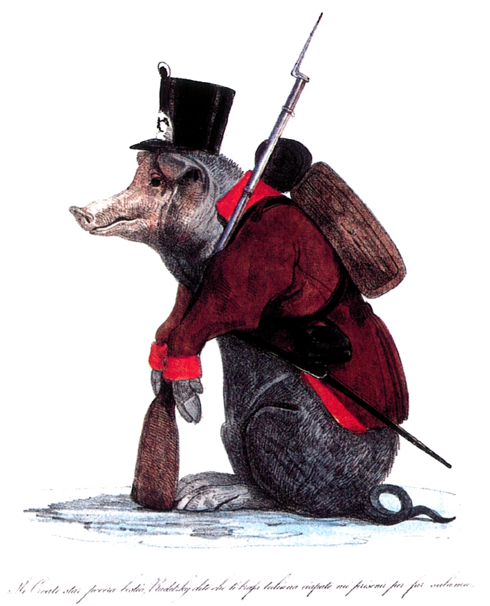 Croatian soldier of Austrian army pictured as pig (satire)